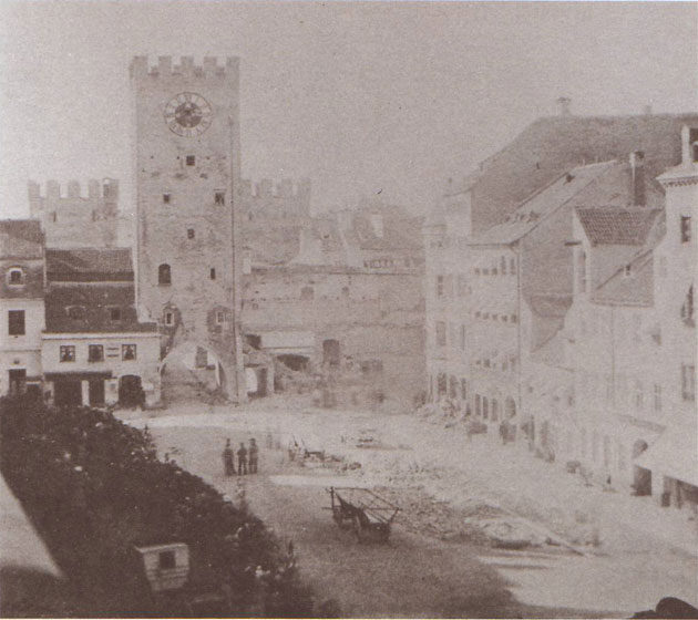 Karlstor, Munich. The house of the iron merchant Rosenlehner, located next to the karlstor, in which considerable quantities of powder were stored, exploded on 15 September 1857, during which the Karlstor was also damaged.